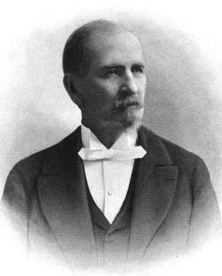 Daniel Webster Jones (December 15, 1839 – December 25, 1918) was the 19th Governor of the U.S. state of Arkansas.